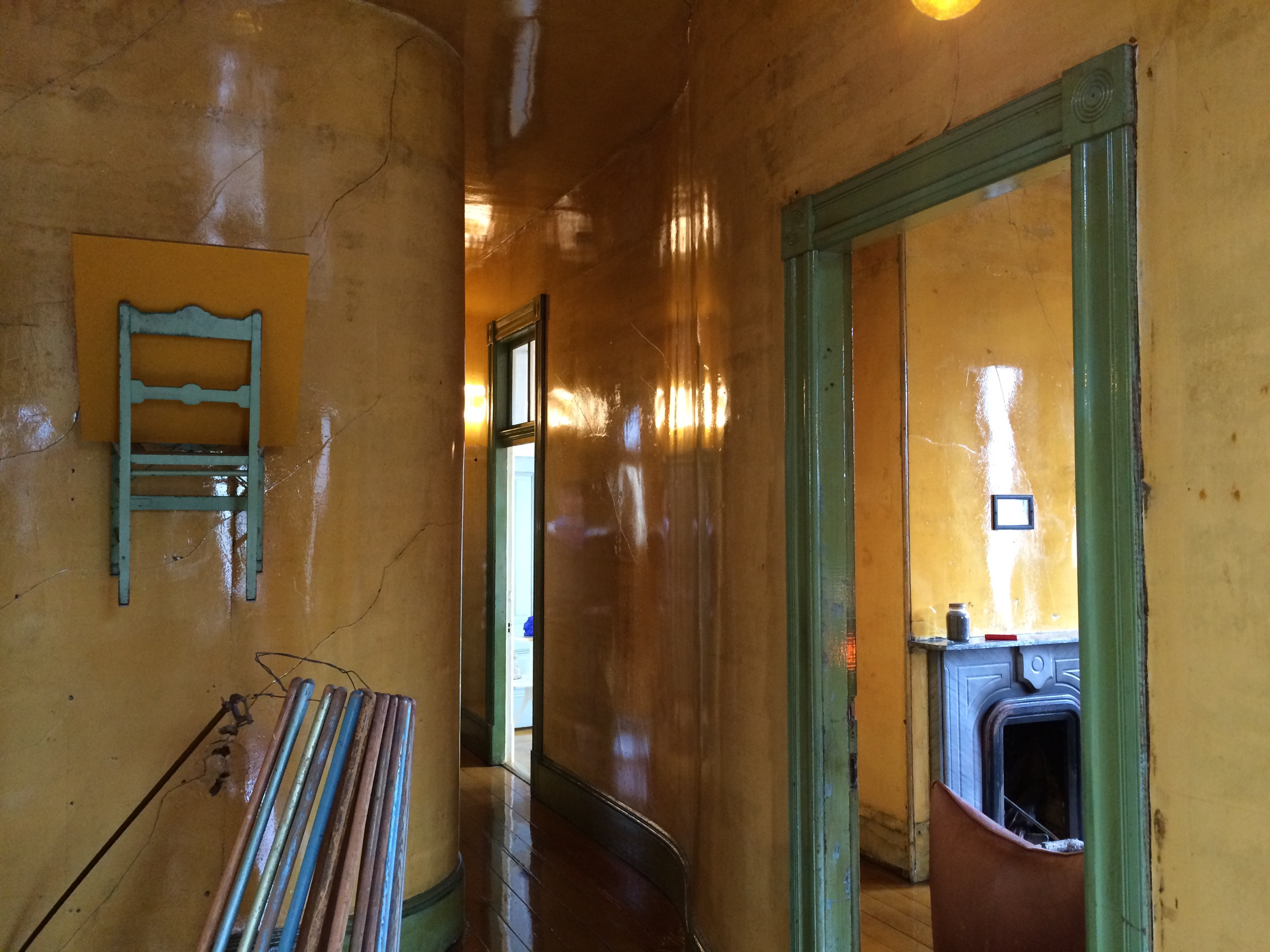 At the David Ireland house museum in the Mission District, San Francisco.